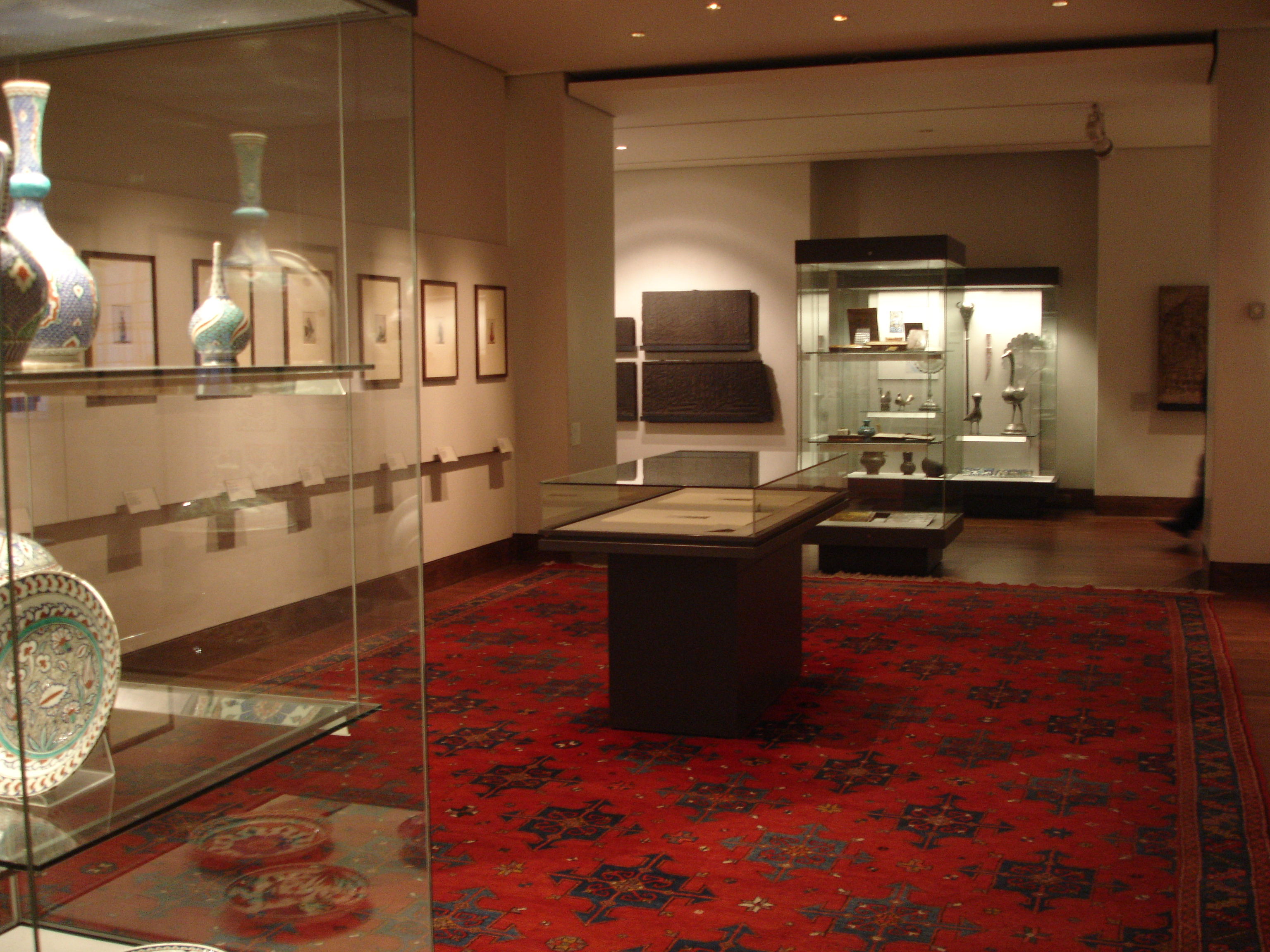 Own Work Feb 2007